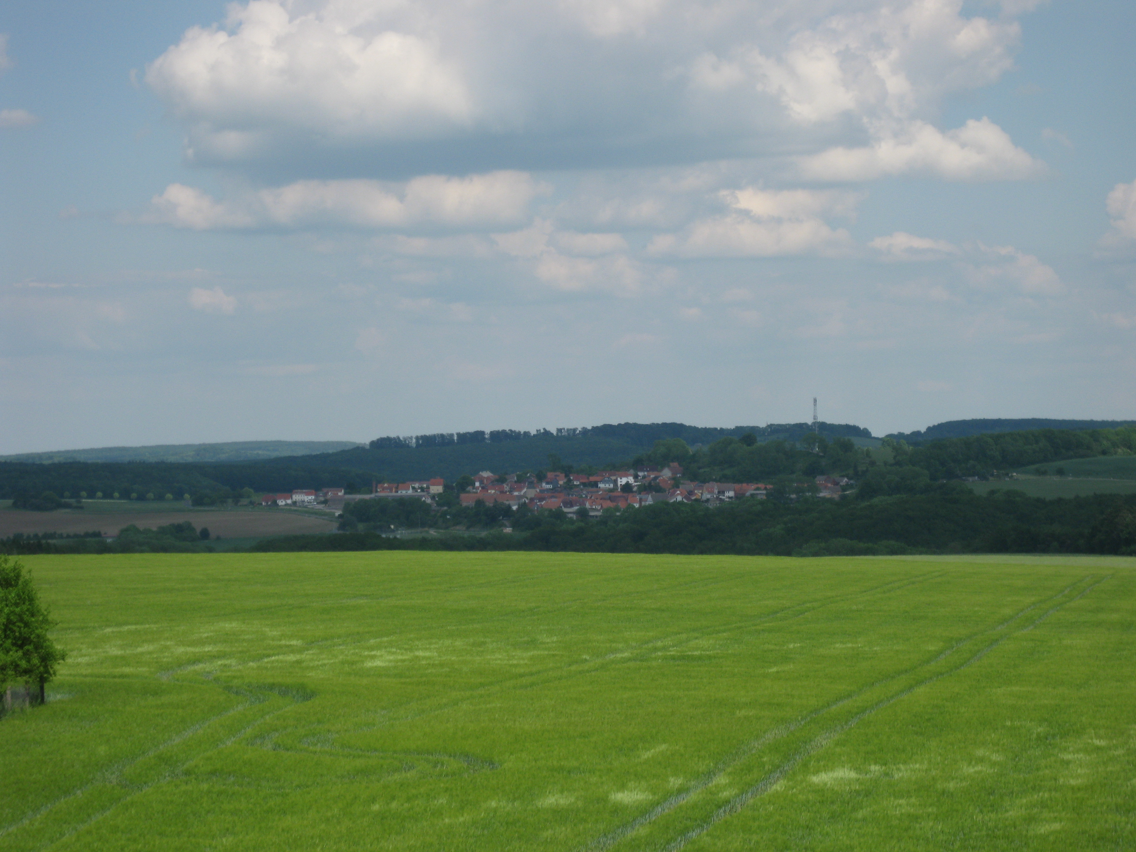 Kalteneber view from west